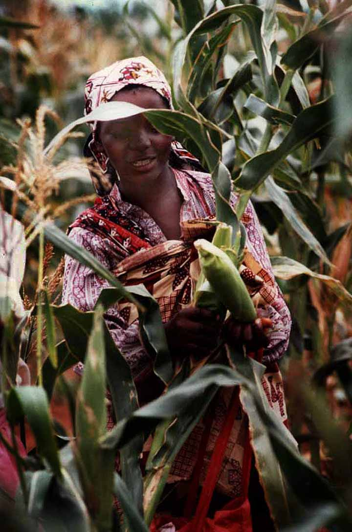 Women in Mozambique with maize.